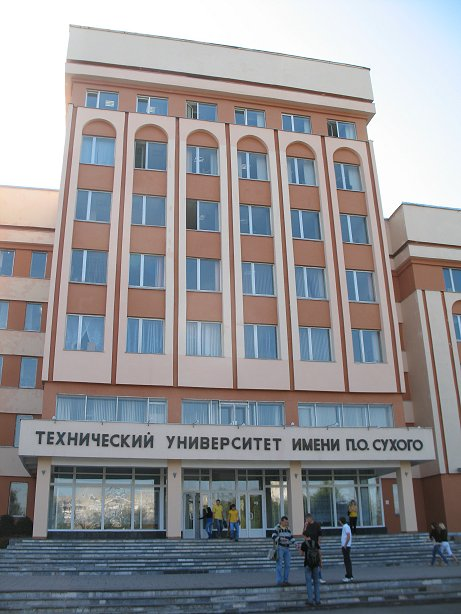 Entrance of Pavel Sukhoi State Technical University, in Gomel, Belarus.